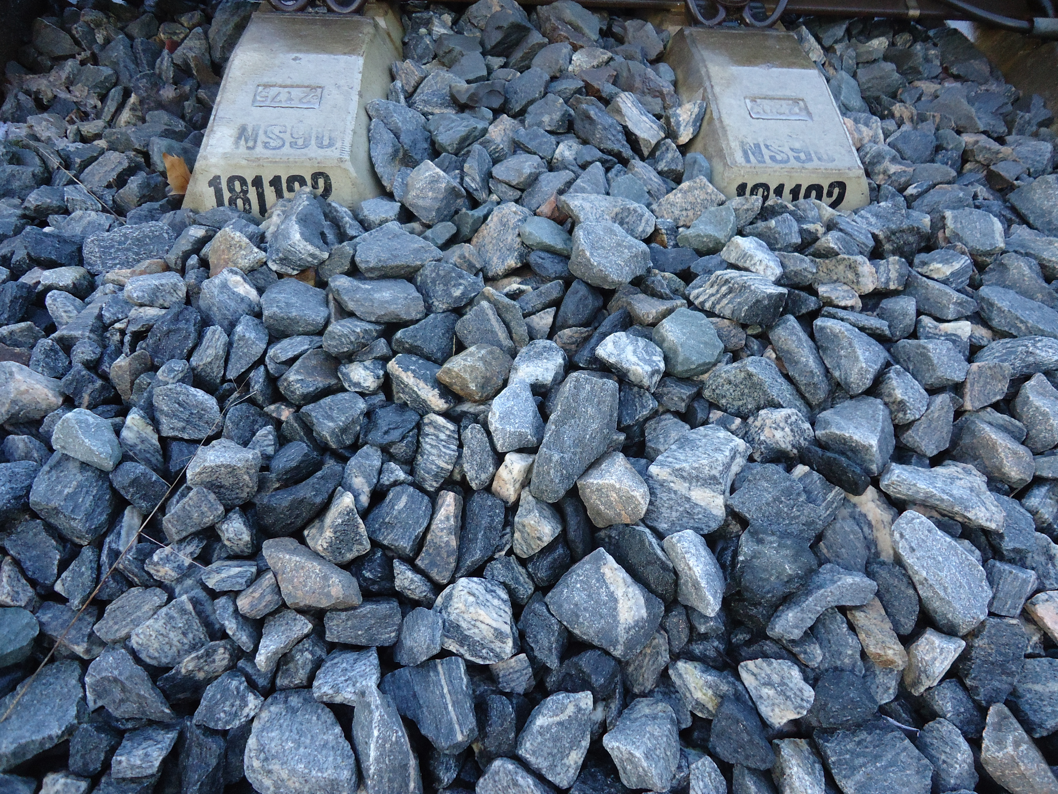 Ballast for railroads